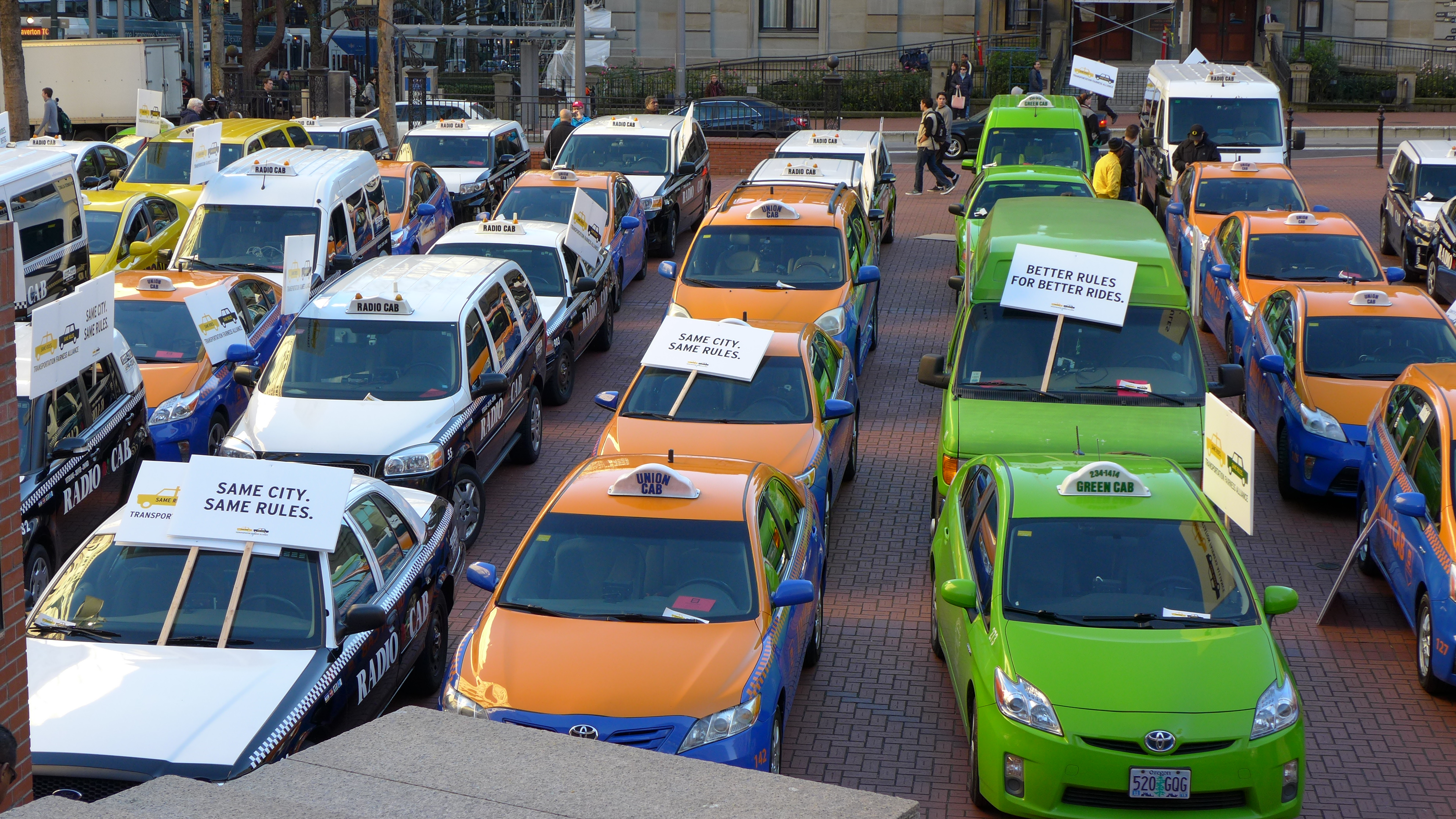 On January 13, 2015, around 70 of Portland's 460 Taxi cabs protested fair taxi laws by parking in Pioneer square. Organizers want city leaders to make ride-sharing companies play by the same rules as cabs and Town cars.